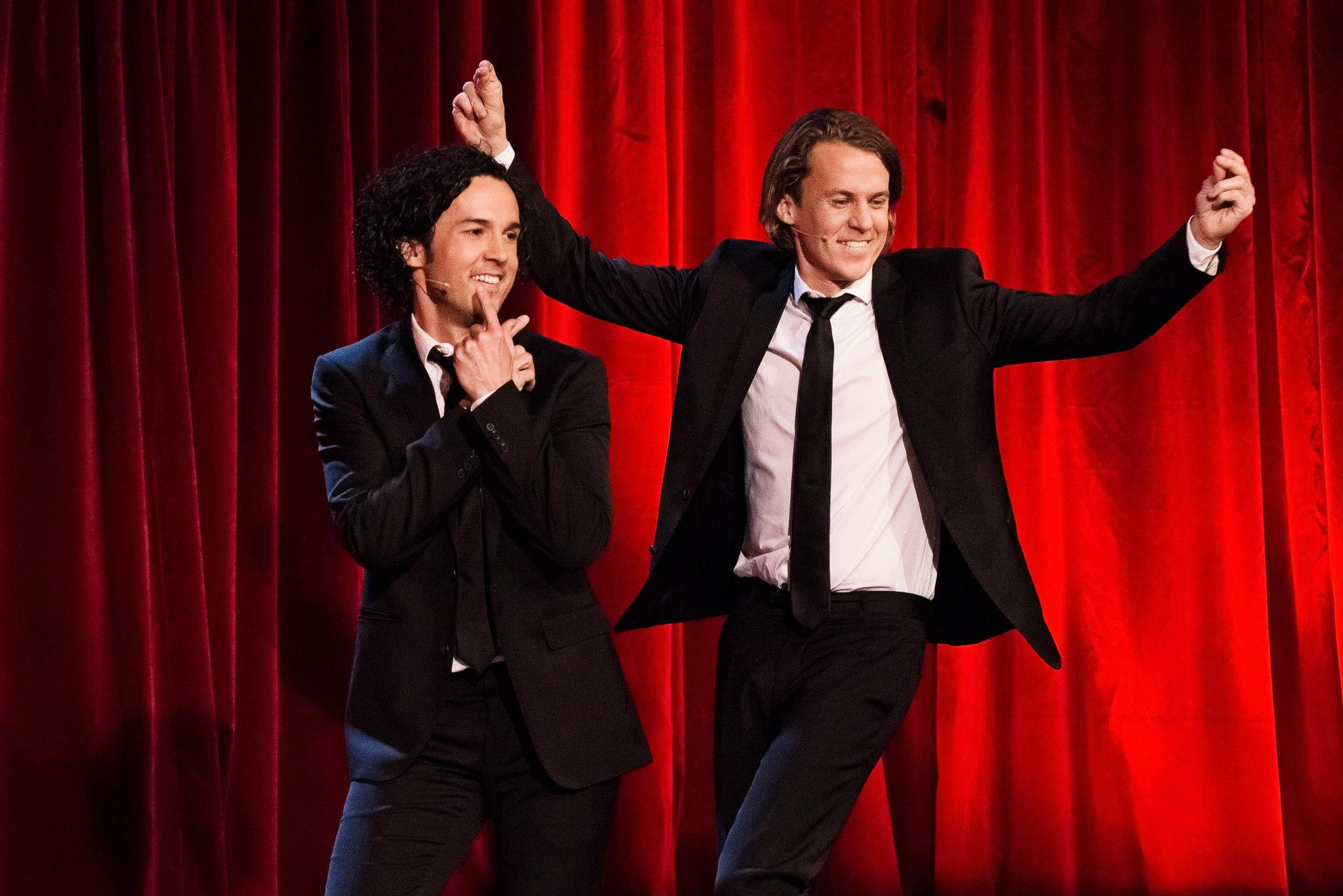 Ylvis - picture from TV show 'I kveld med Ylvis' Vegard Ylvisåker (left) & Bård Ylvisåker